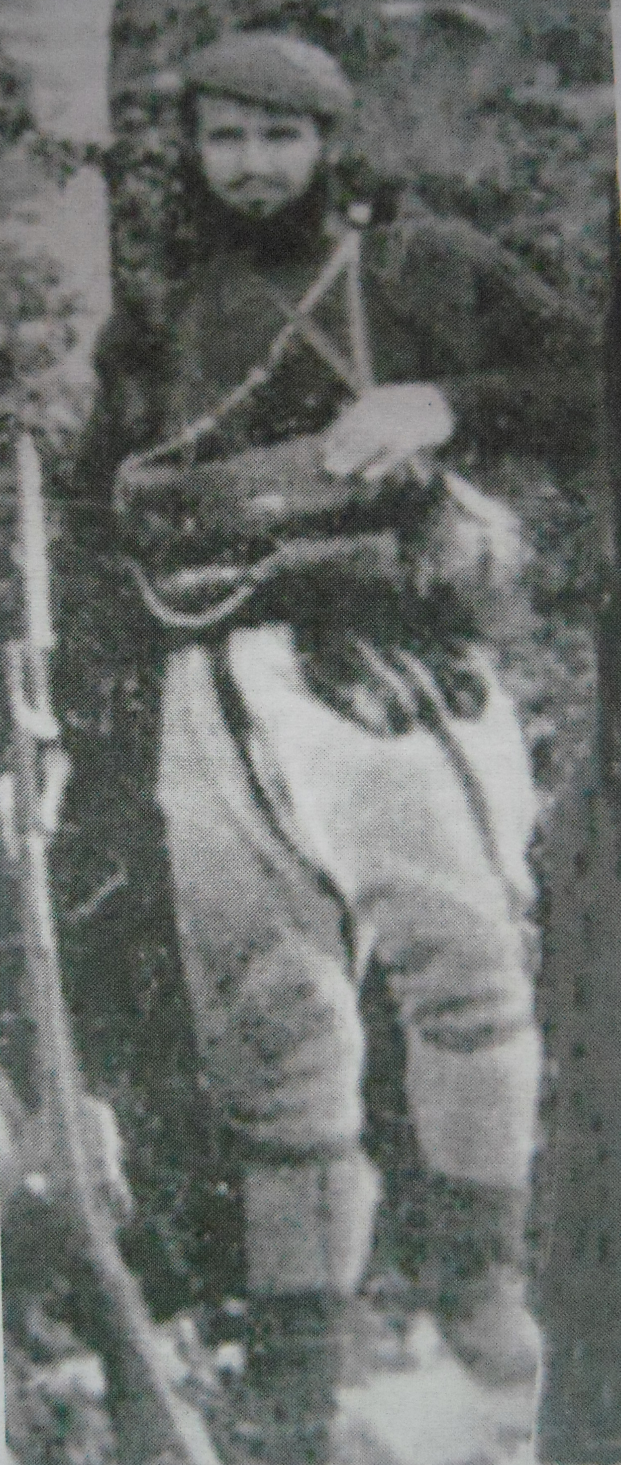 Portrait of Georgi Acev